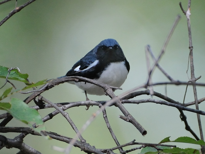 Black-Throated Blue Warbler Taken at The Pinery Provncial Park with Nikon D300 and 200-400VR.